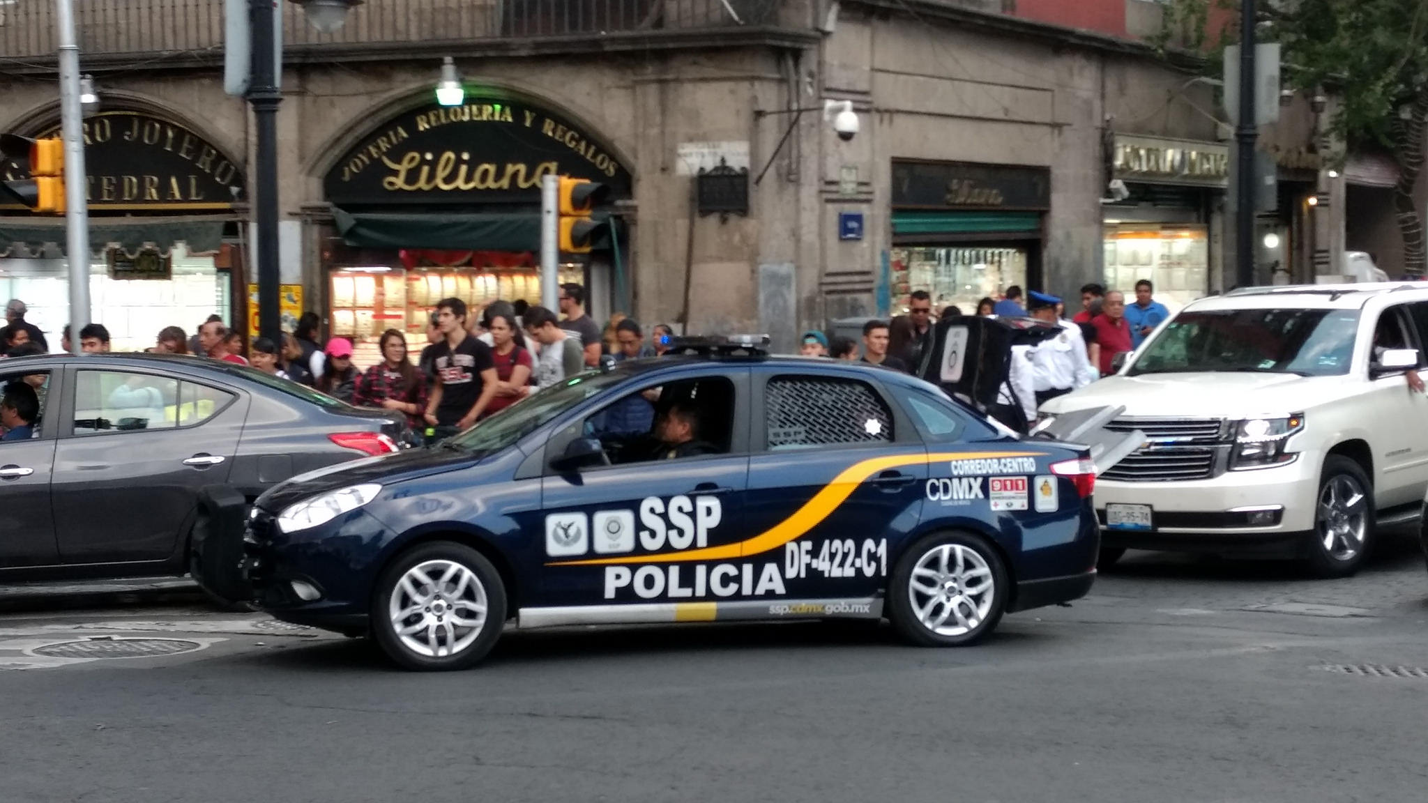 Mexico City Police, preventive police division. Dodge Fusion at Downtown Mexico City.